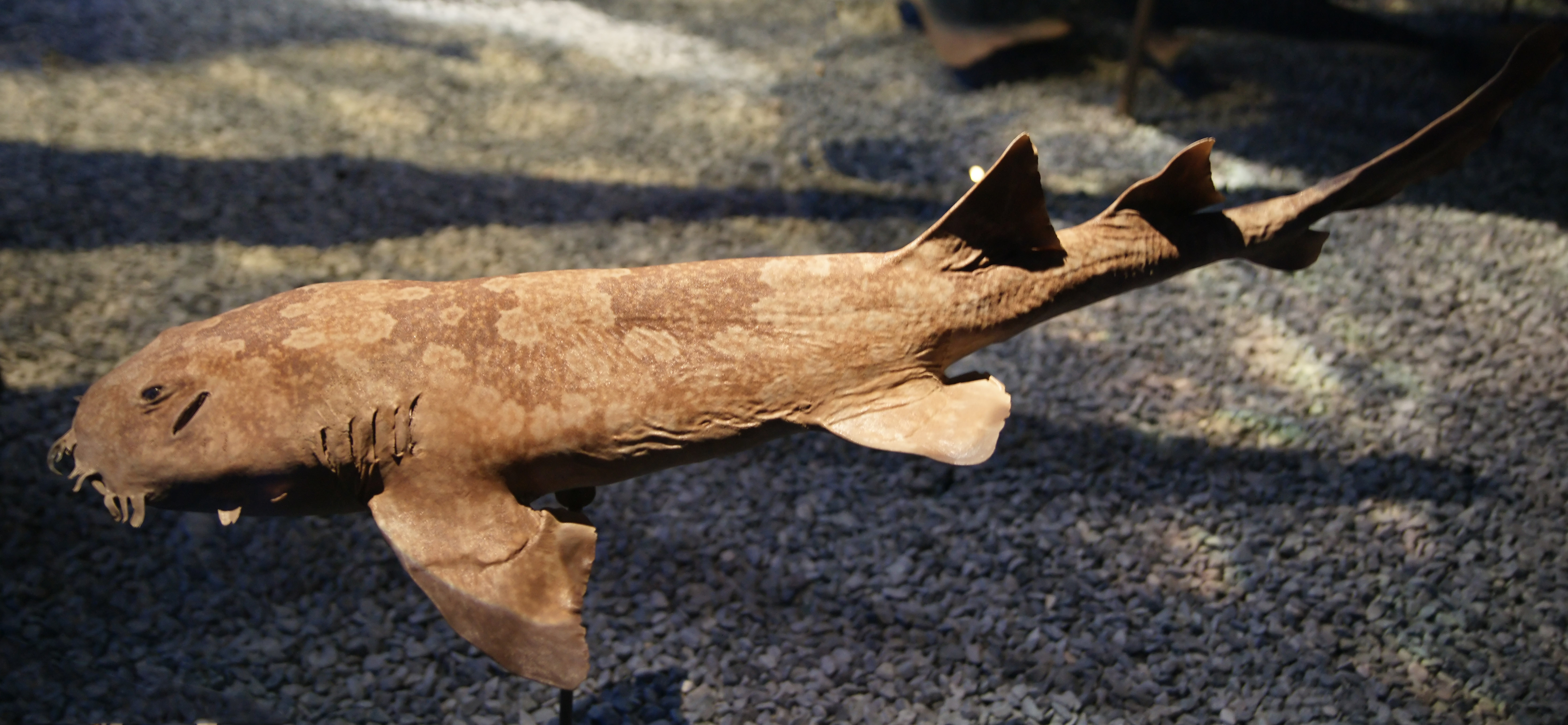 Japanese wobbegong, Orectolobus japonicus, Naturhistorisches Museum Wien. This specimen was caught in the 19th century by the crew of the Austrian corvette Frundsberg.